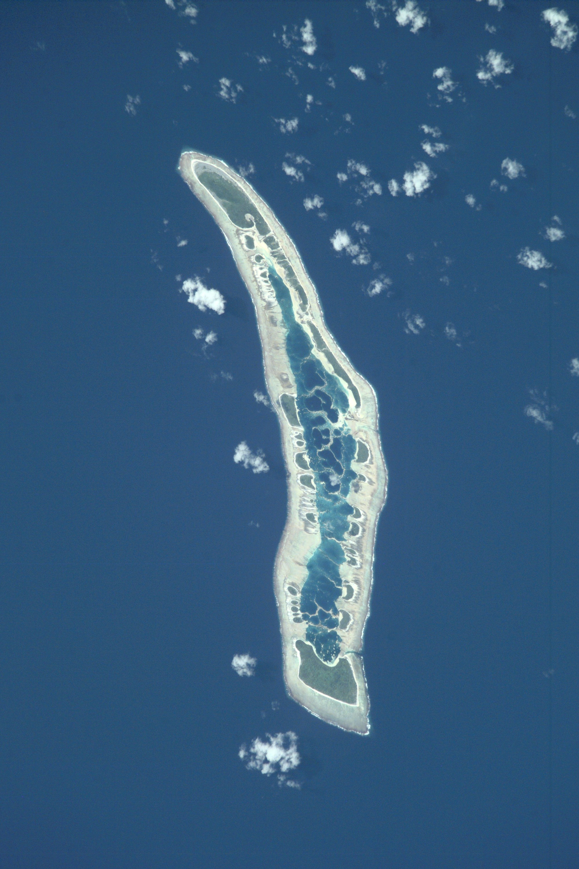 NASA astronaut image of Caroline Atoll (Kiribati) in the Pacific Ocean